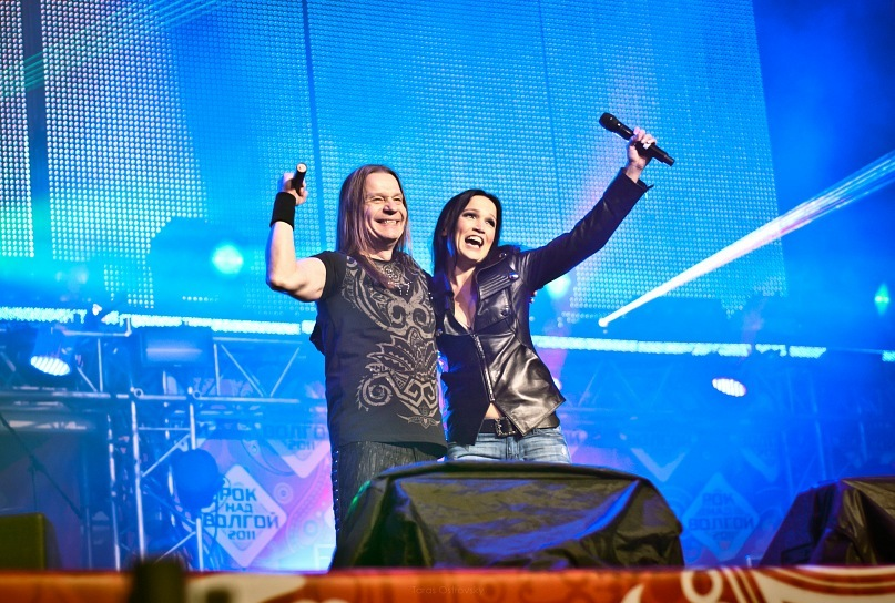 Tarja Turunen & Valery Kipelov, 2011, Фестиваль Рок над Волгой